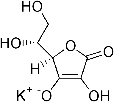 Chemical structure of potassium erythorbate